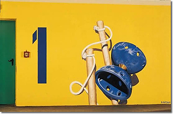 Diabolo, mural by Dominique Antony . One of the fourteen paintings in the parking lot in Broglie à Strasbourg (France). Photo by Philippe Guerin.